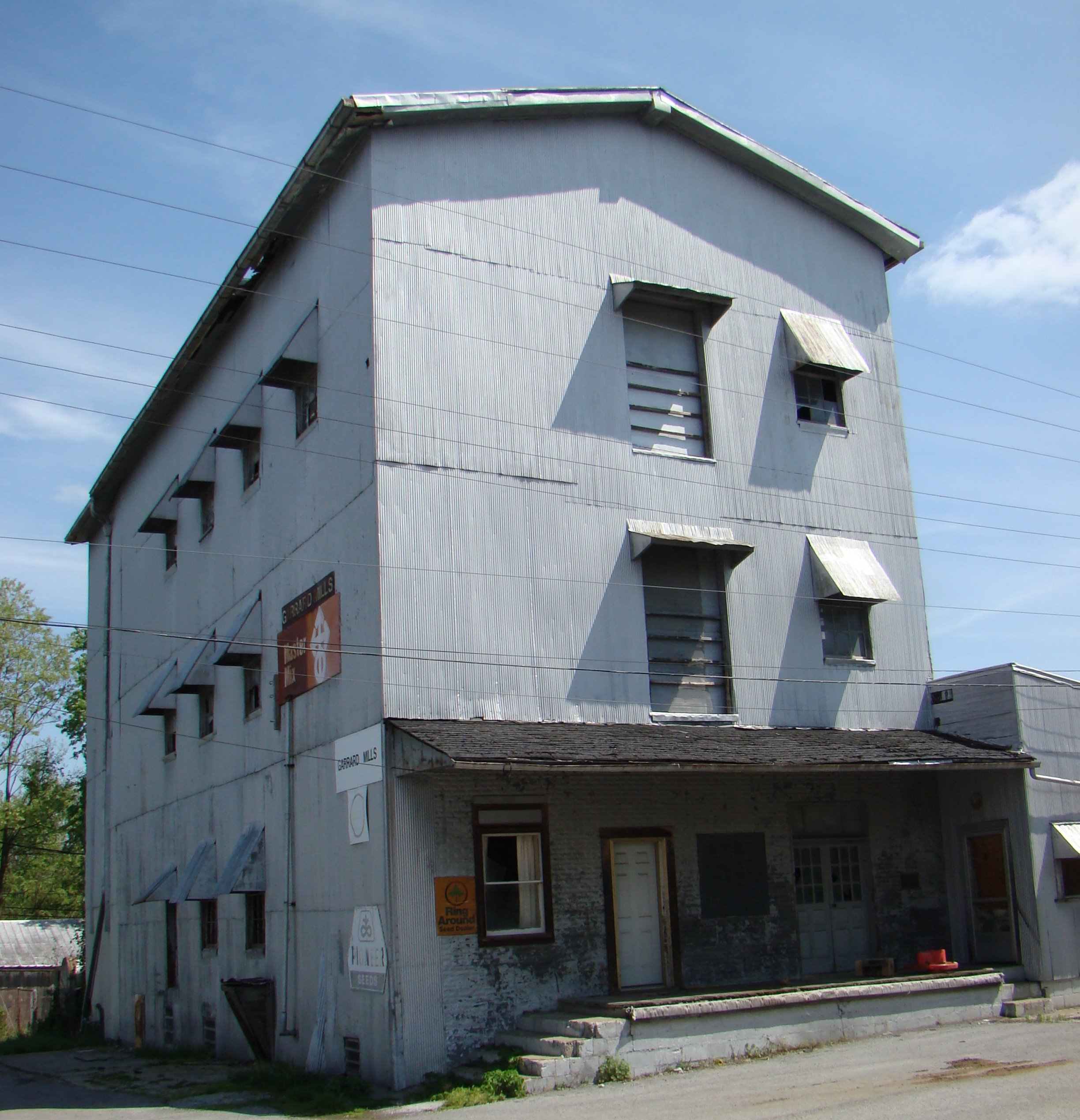 Image of Garrard Mills, a historic mill in Lancaster, Kentucky.